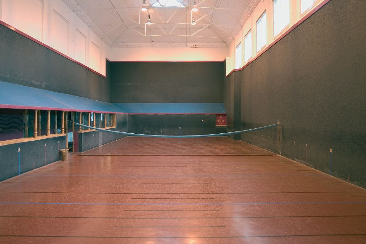 Newmarket Suffolk real tennis court in England.